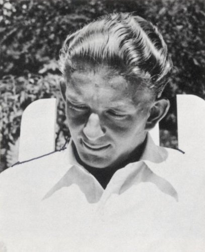 Hans Lodeizen (Dutch poet, 1924-1950). Date unknown, between 1940 and 1945